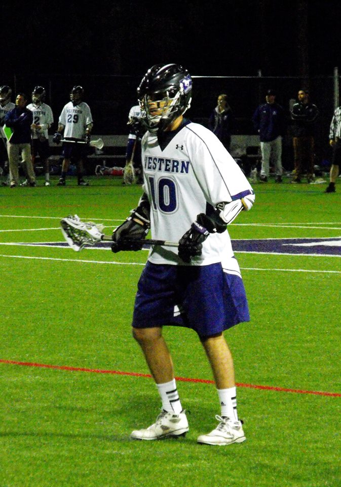 These are images of CUFLA action during the 2014 season and are taken by Devan Mighton.